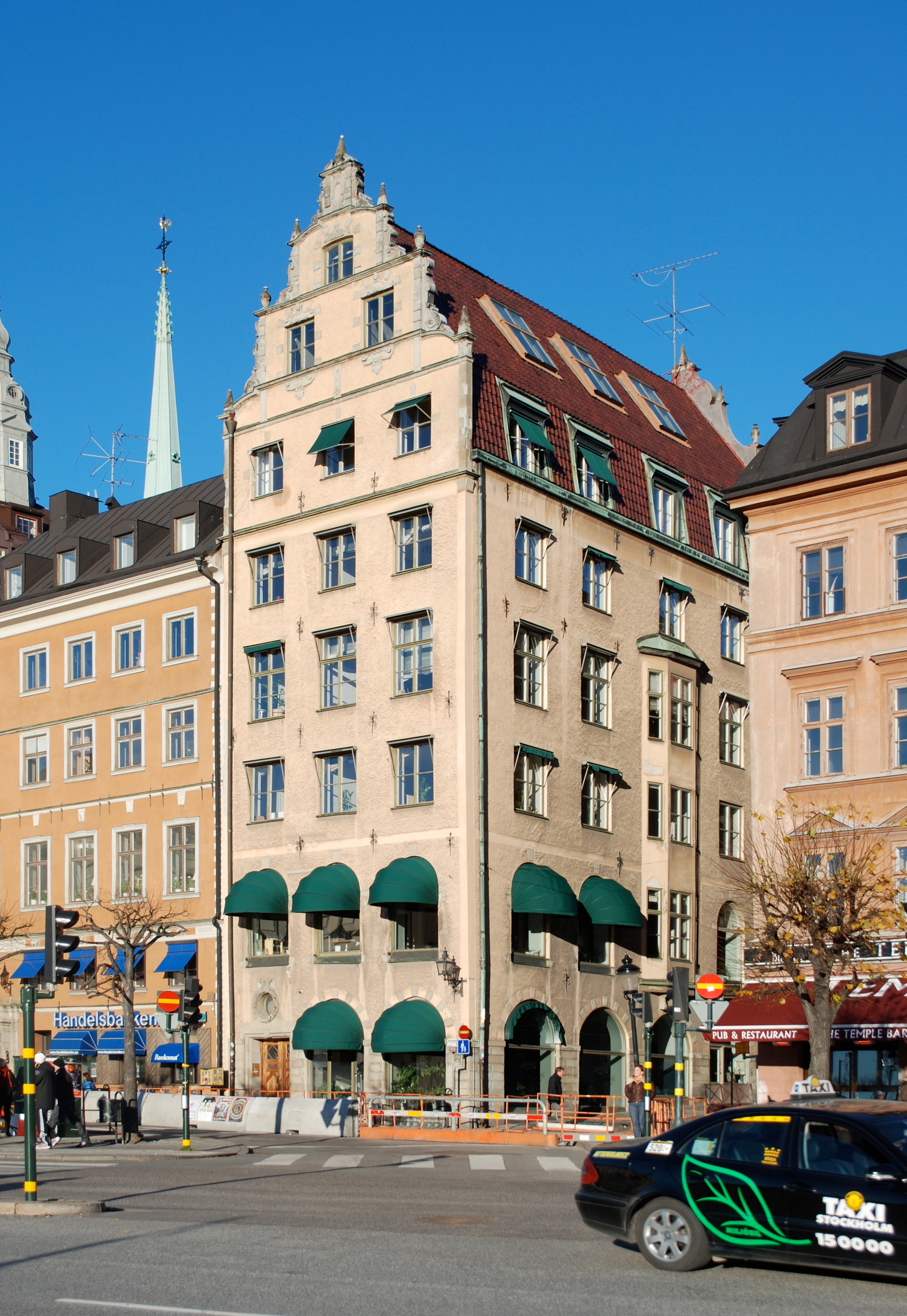 Kornhamnstorg 53